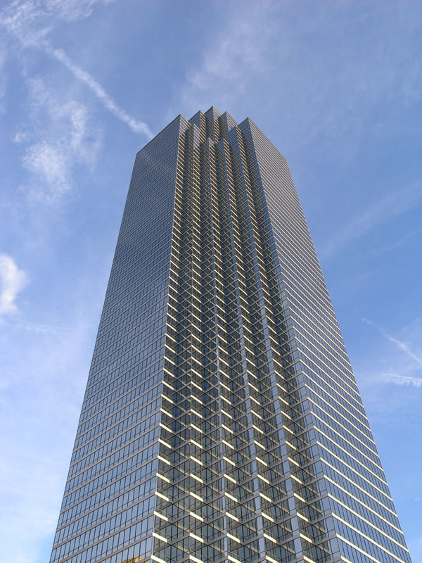 Bank of America Plaza in downtown Dallas, Texas (USA)